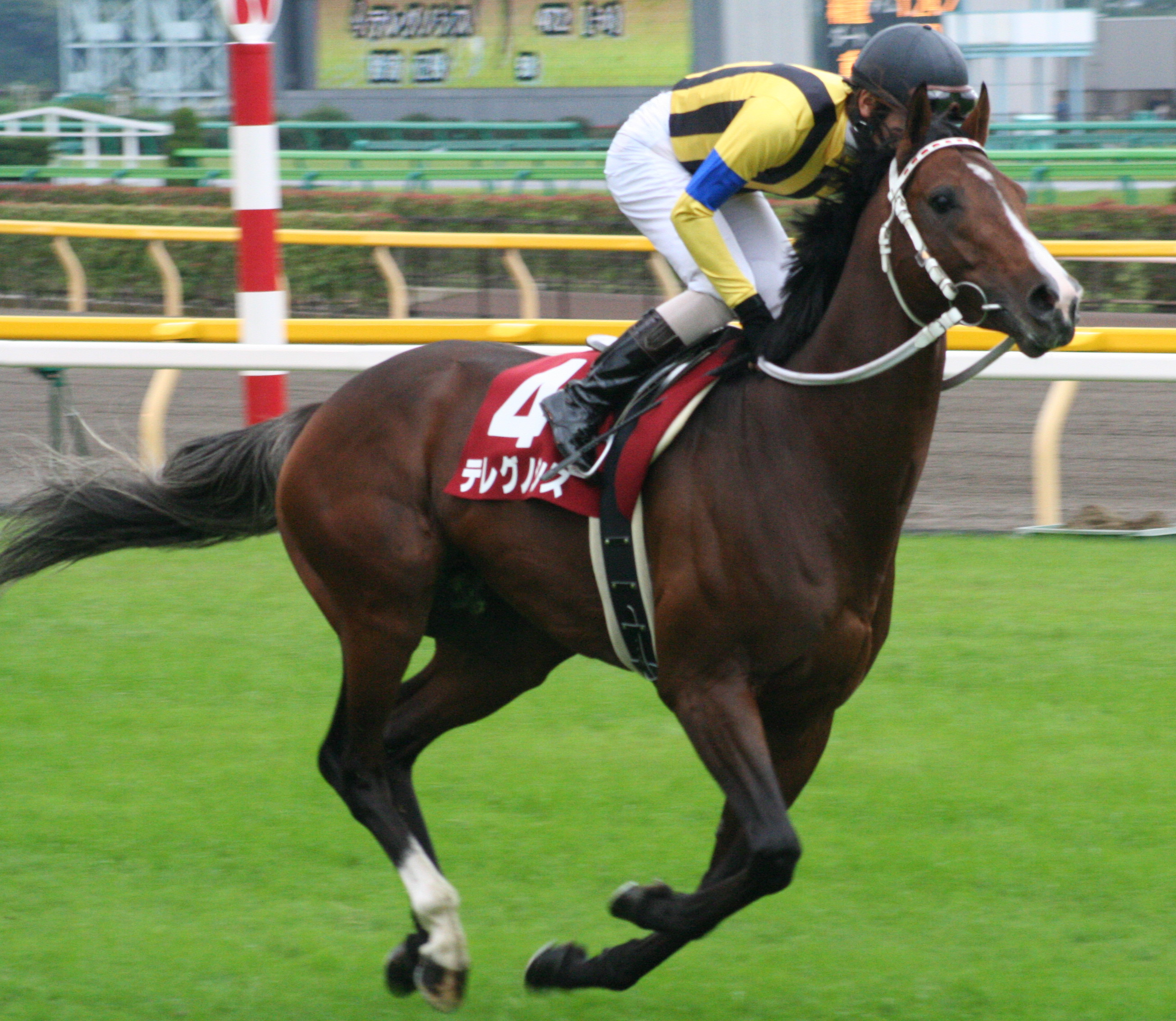 Telegnosis (Racehorse, Tokyo Racecourse on October 9, 2005.) テレグノシス（2005年10月9日、東京競馬場で撮影、撮影者 Goki）